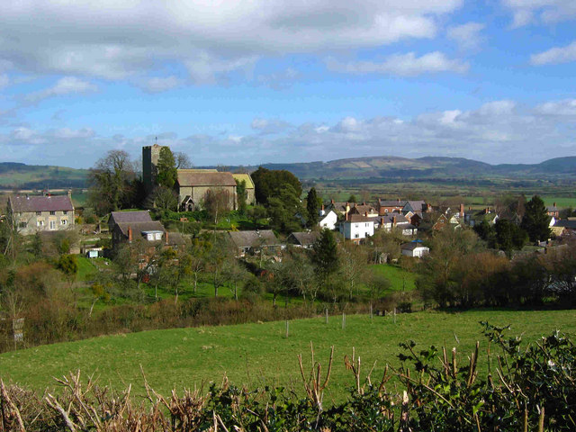 Wigmore Church and village View to the North east from Mortimer Trail Loop Walk showing dominant position of the church on the hill